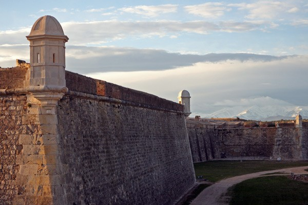 One of the corner walls on outside structure of Sant Ferran Castle.